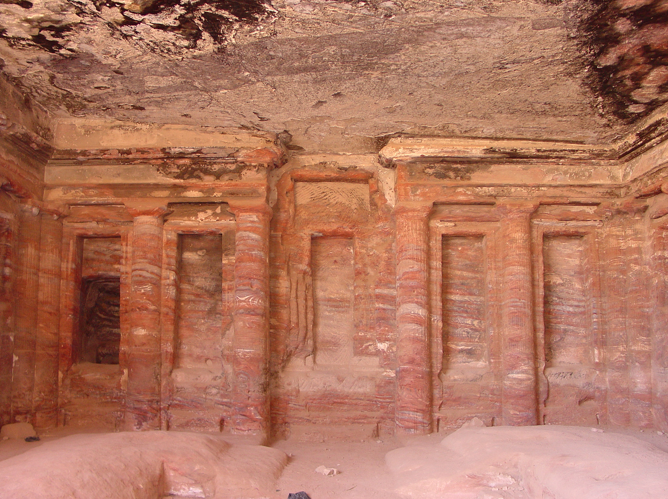 The triclinium is located on the lower terrace, across from the Roman Soldier tomb. It should not be confused with the Garden Triclinium on the upper terrace.